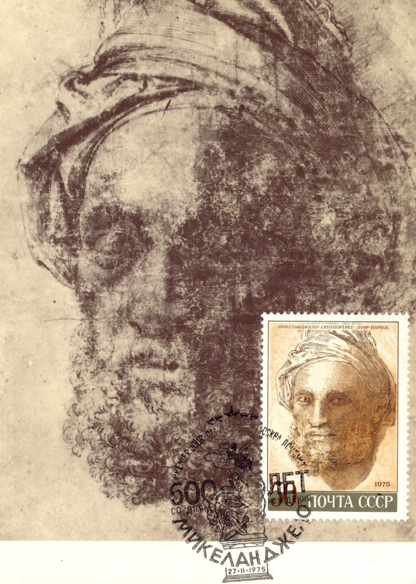 Self portrait of Michelangelo Buonarroti